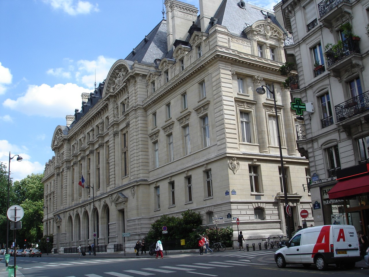 La Sorbonne (University of Paris),front on Rue des Écoles.